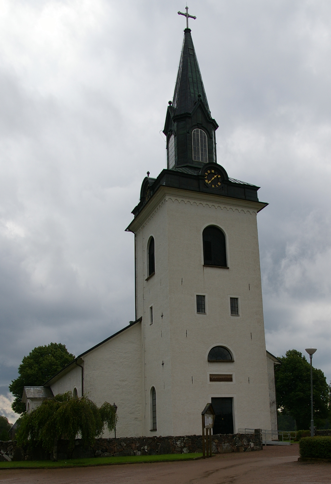 Floby kyrka (Swedish:Church of Floby) in Västergötland, Sweden.